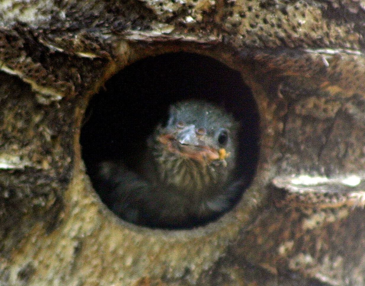 Lesser Honeyguide nestling, a brood parasite of barbets, waiting to be fed, Honeydew, Johannesburg